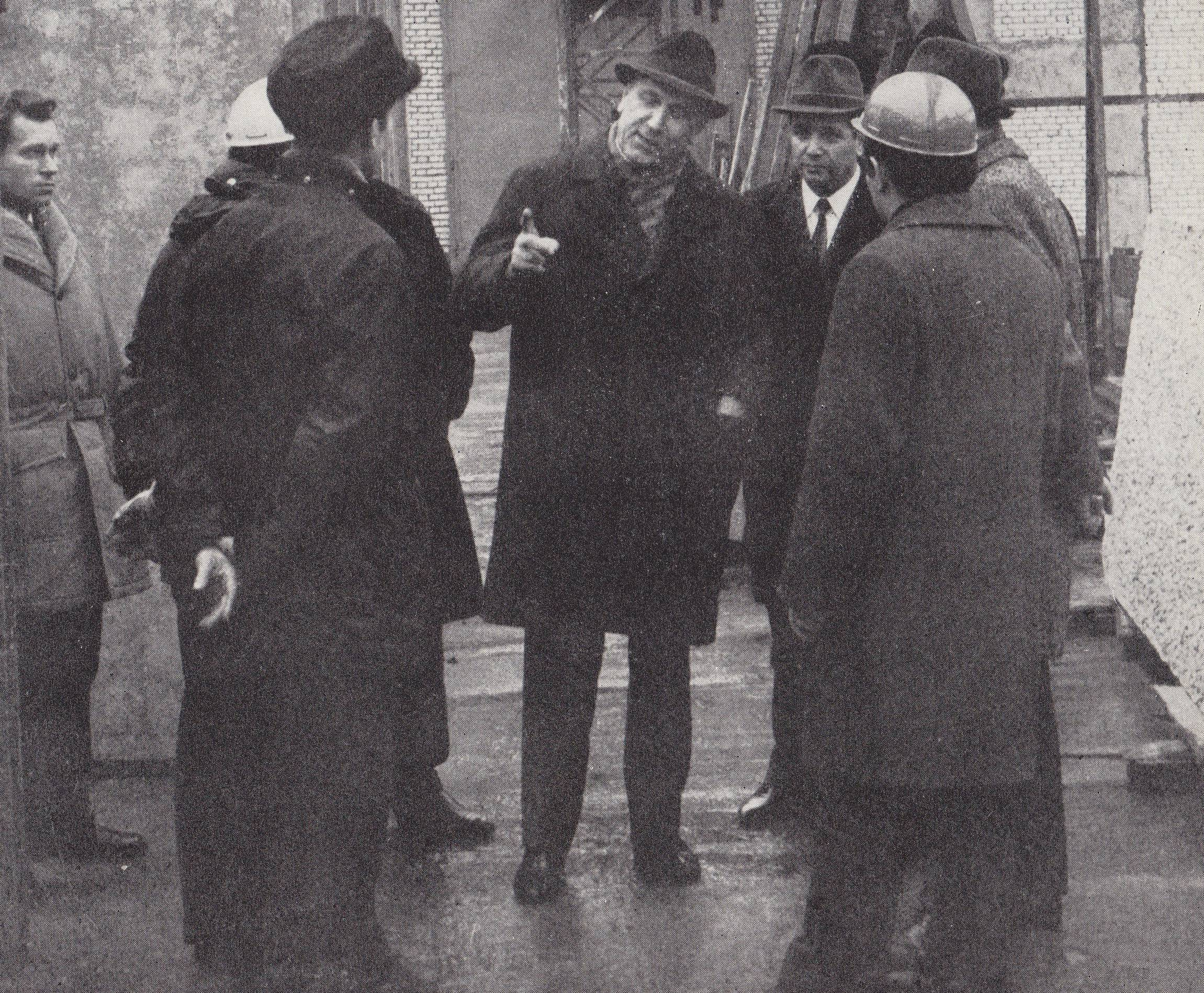 Edward Gierek in Ustronie Neighbourhood in Radom during its construction